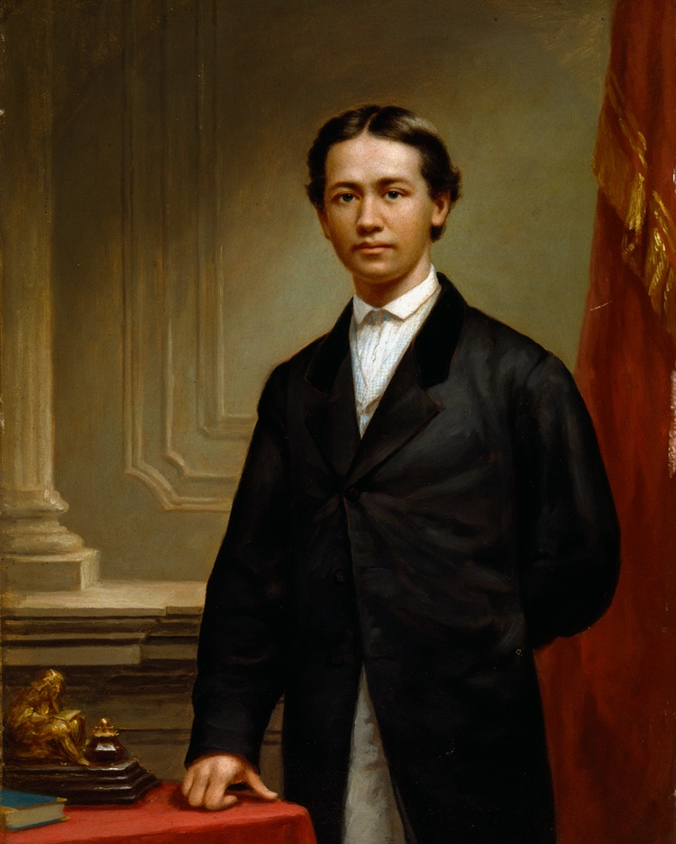 Portrait of Henry Hoolulu Pitman from the Peabody Essex Museum. Database catalog entry: Portrait of Benjamin F. Pitman, 19th century. Oil paint, canvas. Peabody Essex Museum, Gift of Mr. Charles D. Childs, 1966., M12775